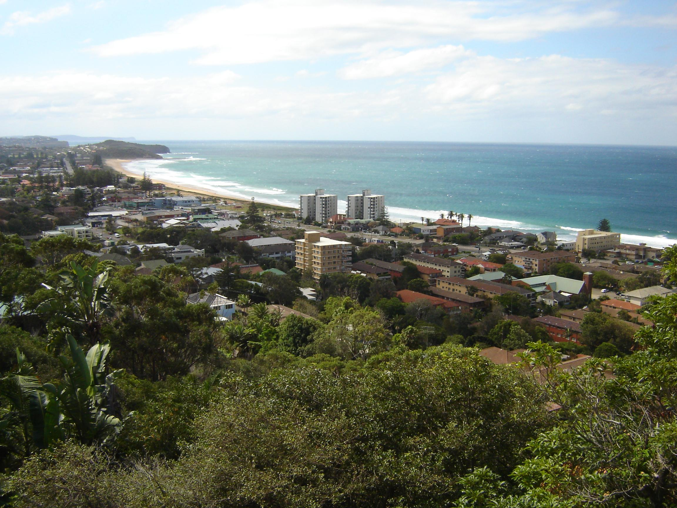 The suburb of Collaroy, and also Collaroy Beach, viewed from Collaroy Plateau.